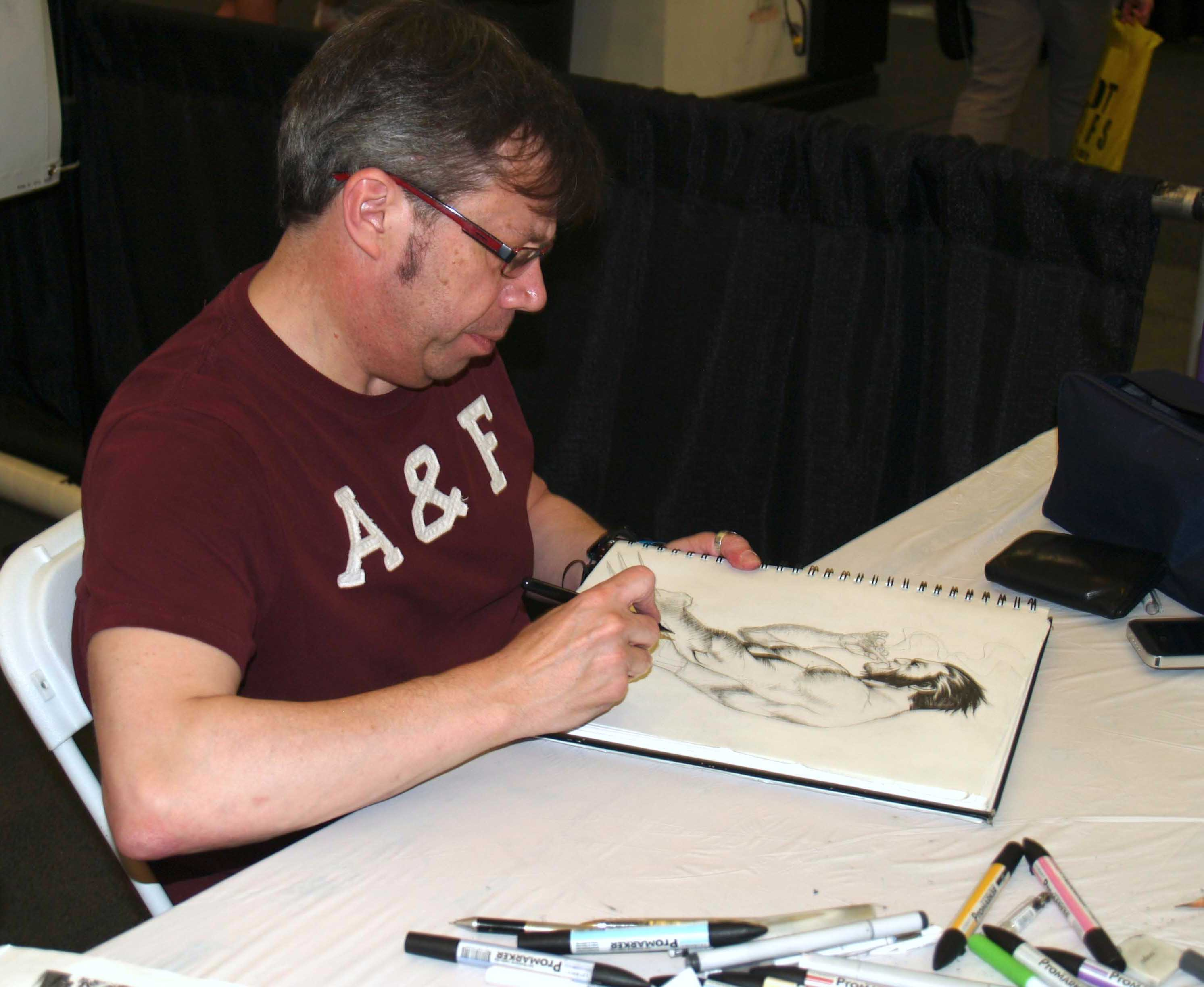 Comics creator Carlos Pacheco sketching the superhero Wolverine on June 29, 2013, during the 2013 Wizard World New Experience. This photo was created by Luigi Novi. It is not in the public domain, and use of this file outside of the licensing terms is a copyright violation.